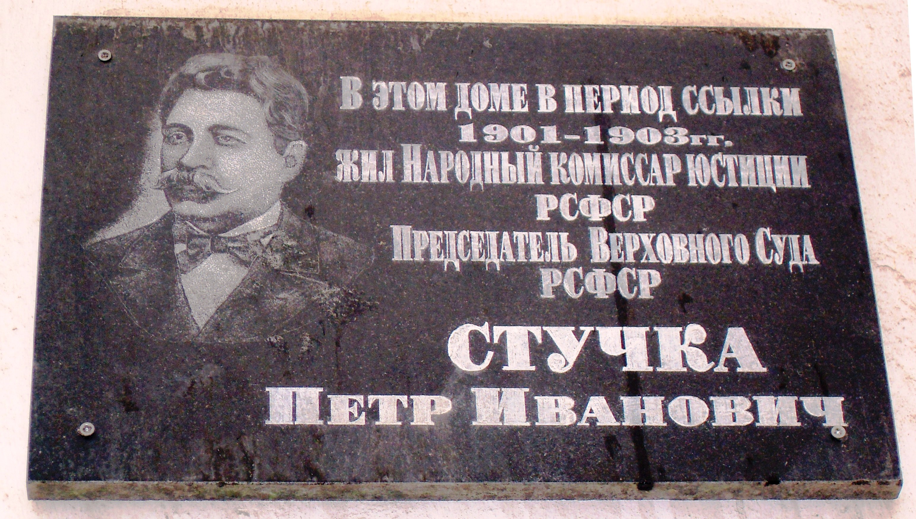 Plaque to Pēteris Stučka in Kirov